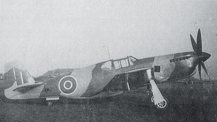 Mustang X; British prototype of Merlin engine Mustang